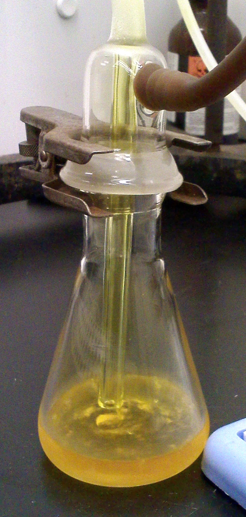 Liquid Chlorine in flask for analysis.